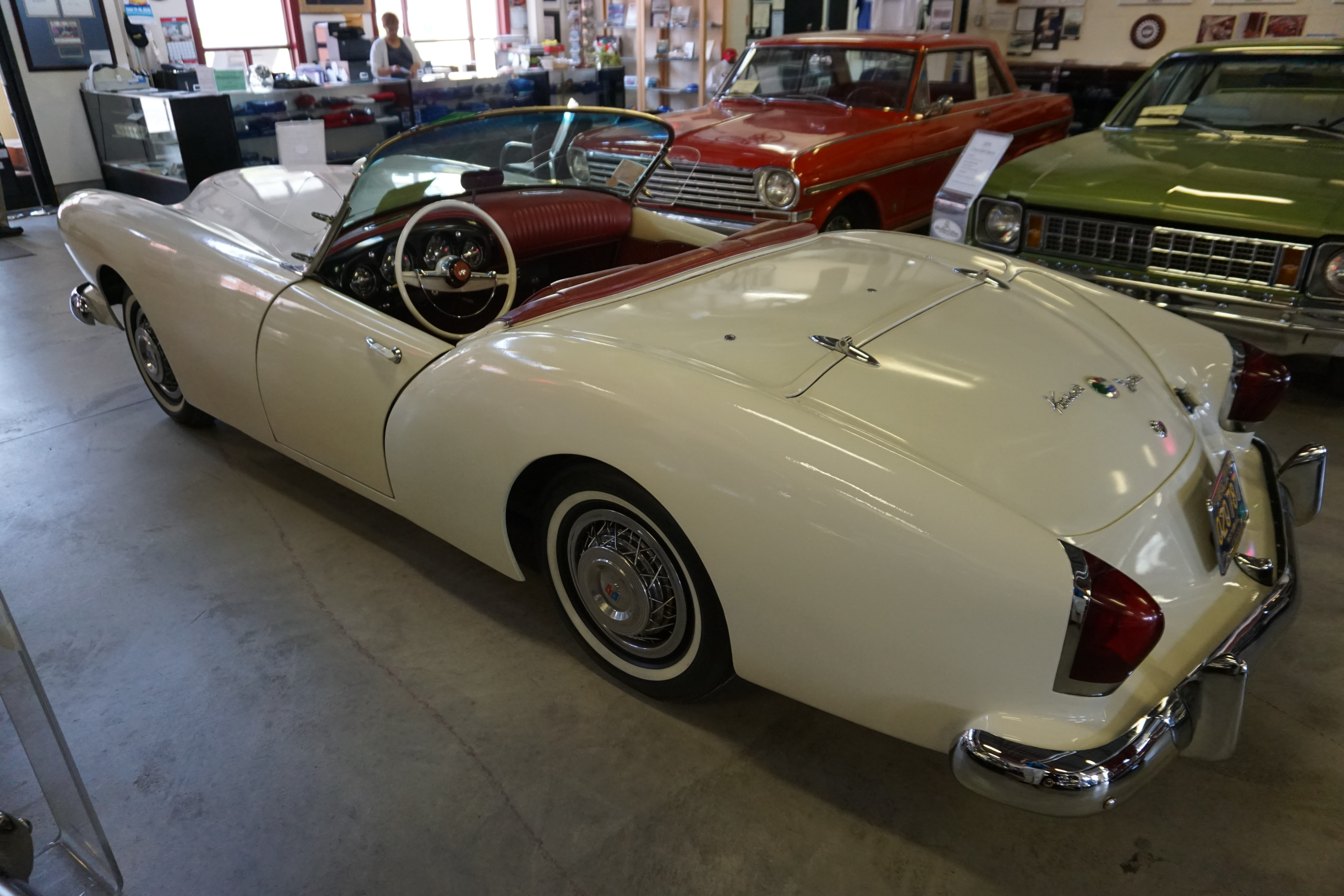 A 1954 Kaiser Darrin at the Ypsilanti Automotive Heritage Museum in Ypsilanti, Michigan (United States).